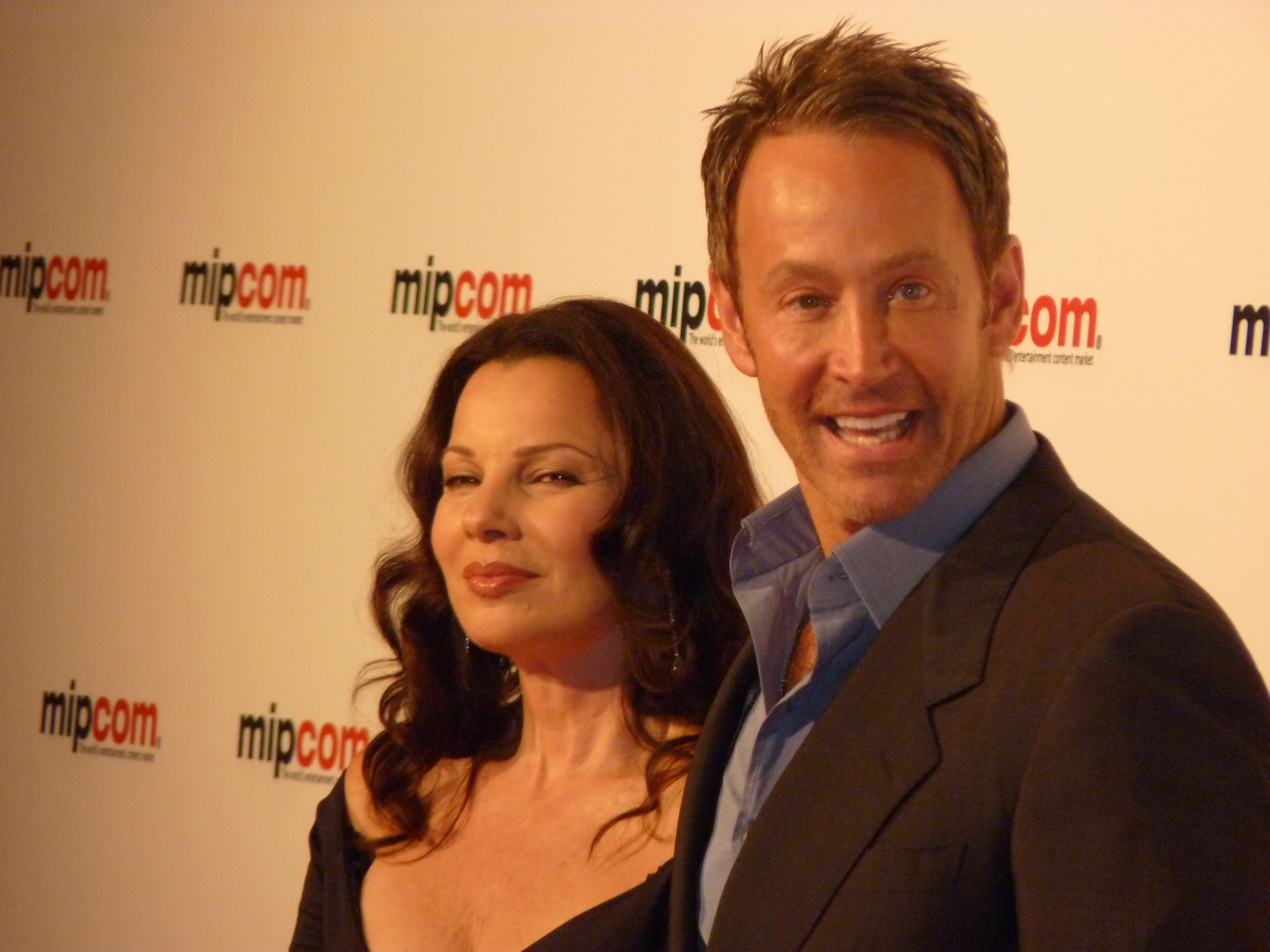 Fran Drescher and Peter Marc Jacobson at the 2011 MIPCOM, in Cannes.